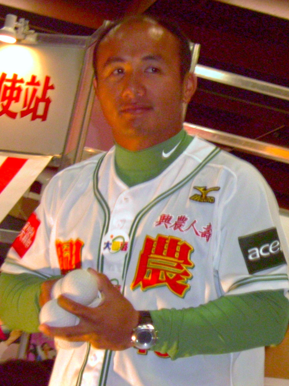 2007 Taipei Game Show: CPBL Sinon Bulls Tai-shan Chang participated special events at Game Station Co., Ltd. booth.